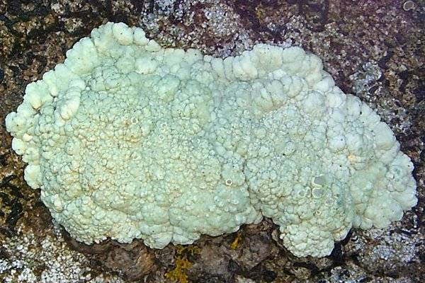 The lichen Lecanora pinguis Tuck.; photographed in Point Navarro Preserve, Mendocino Co., California, USA.